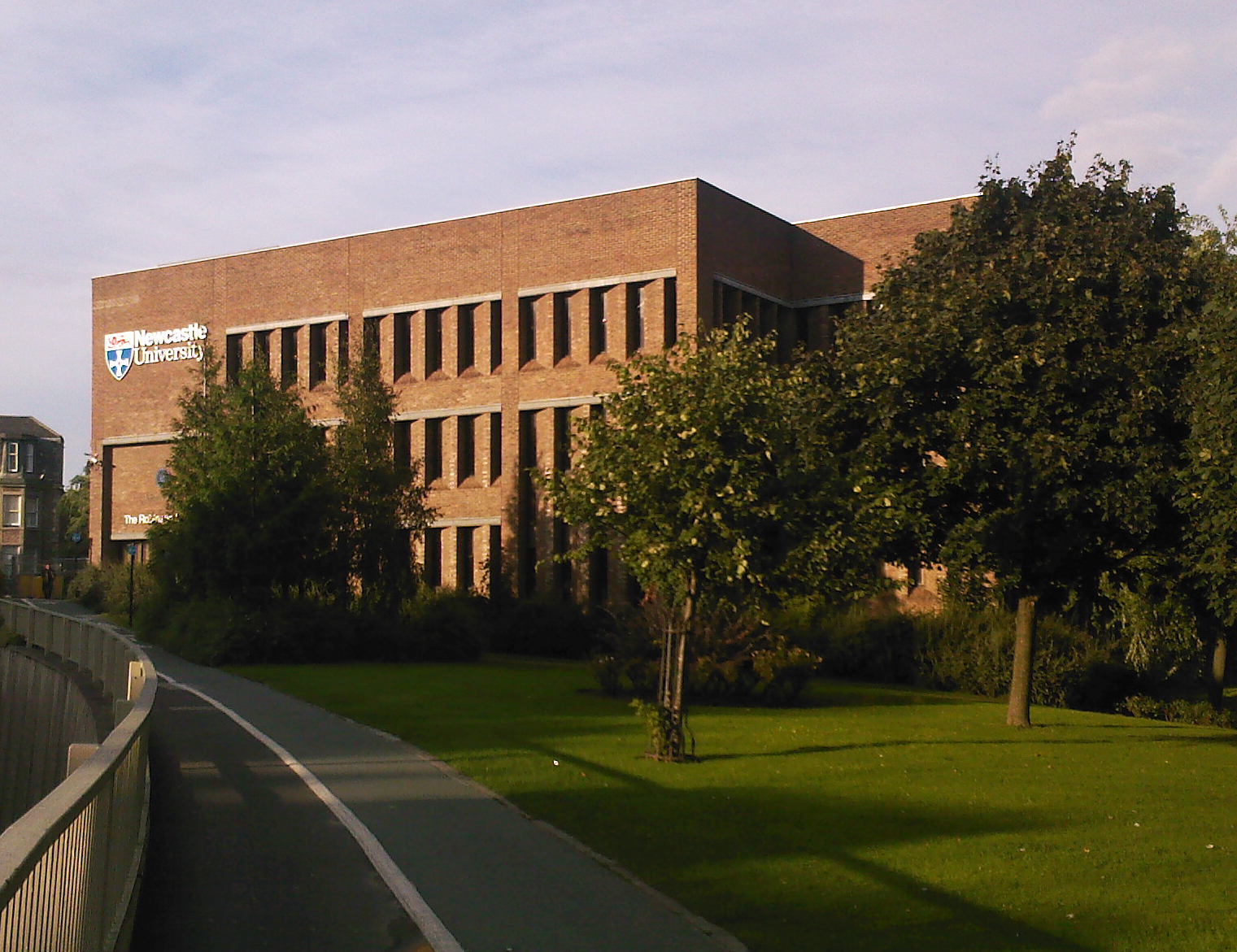 Source:Xtrememachineuk (talk) 18:16, 11 September 2008 (UTC) Newcastle University's Robinson Library. Licensing THIS IS NOT THE SAME IMAGE AS WAS USED PREVIOUSLY - it is my own work, hence the licence below